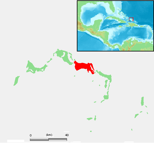 Turks and Caicos Islands - Grand Caicos.PNG